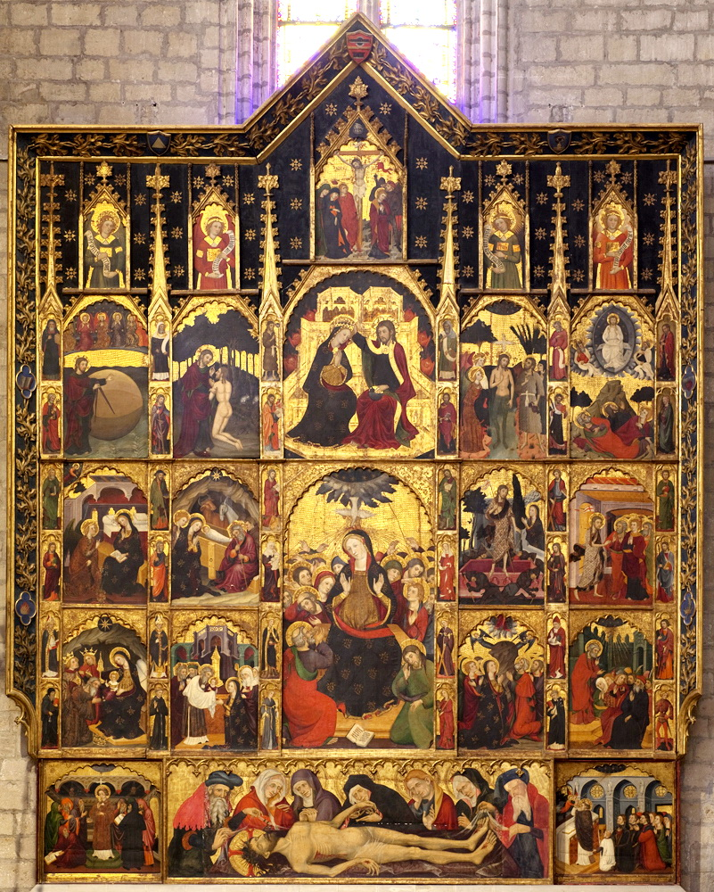 Retaule del Sant Esperit obra de 1394 Pere Serra (fl. 1357–1406) Alternative names Pedro Serra; Master of TobedDescriptionCatalan painterGothic altarpieces painterDate of birth 14th century date QS:P,+1350-00-00T00:00:00Z/7 Work period1363-1399Work location Crown of AragónAuthority control : Q2661403 VIAF: 95752840 ULAN: 500011795 WGA: SERRA, Pere RKD: 72034 creator QS:P170,Q2661403